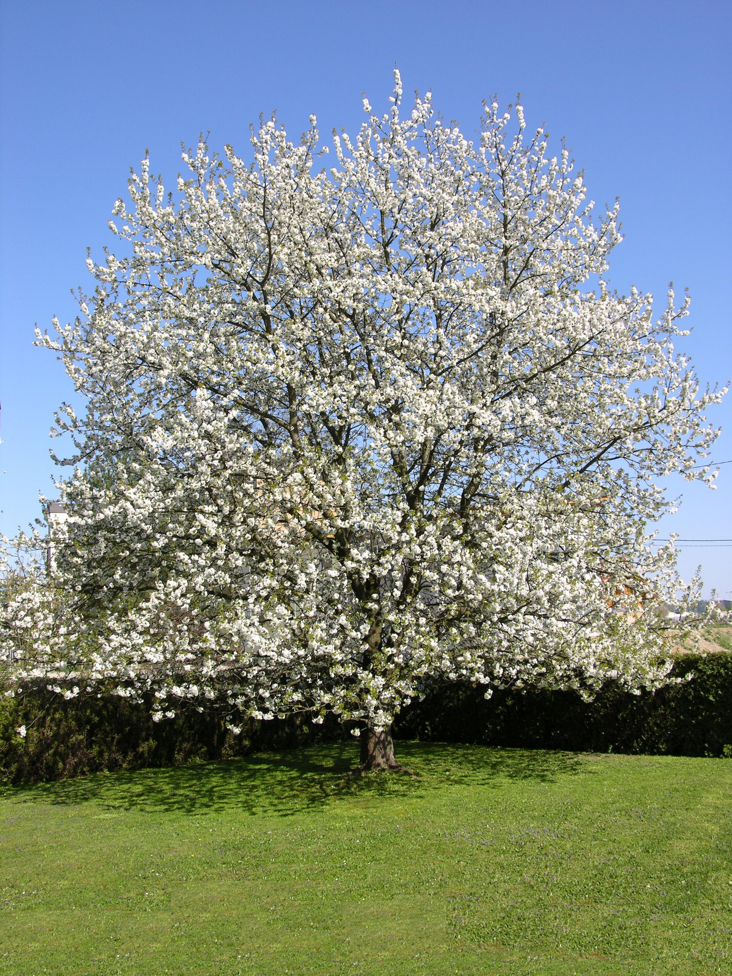 Cherry tree in full bloom.